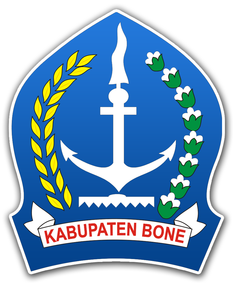 Bone Regency Logo